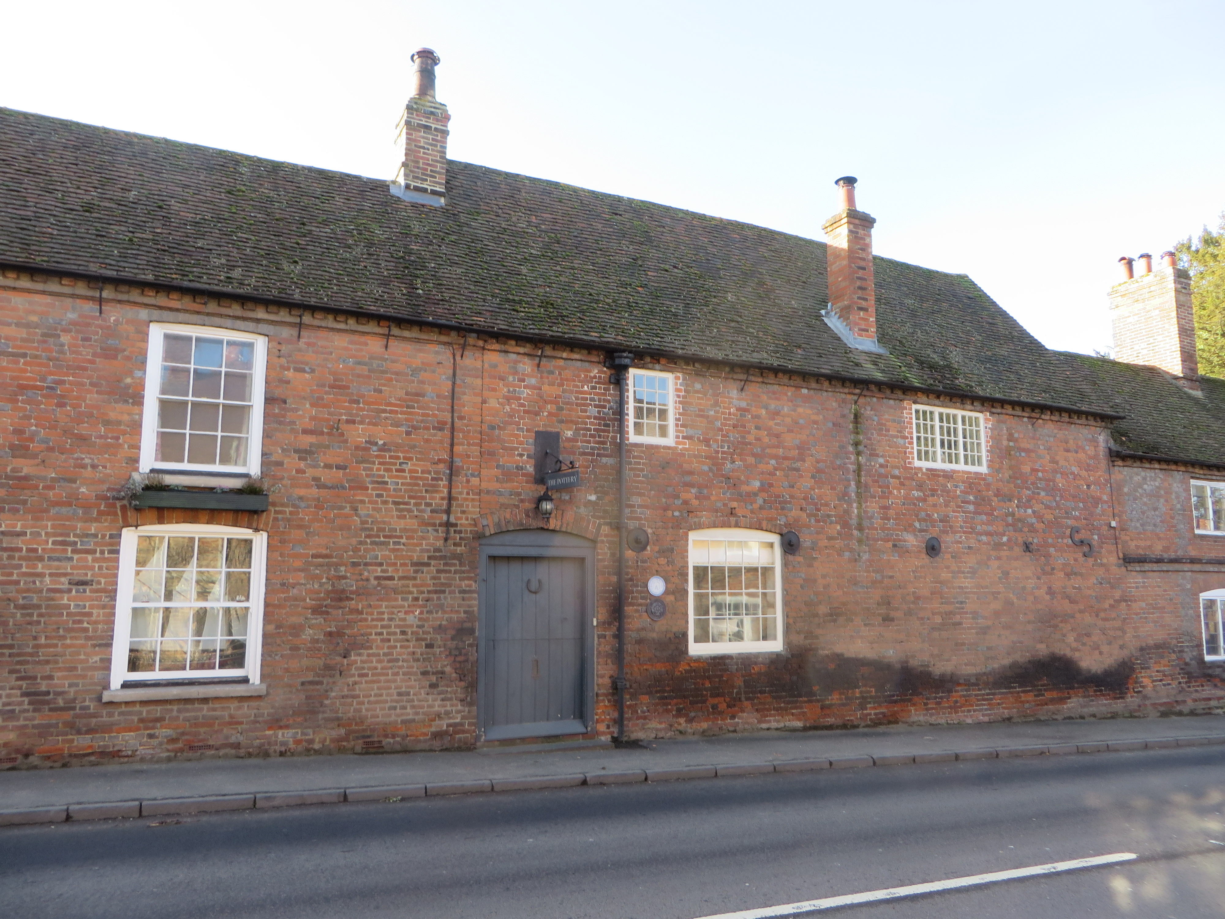 Aldermaston Pottery building in the village of Aldermaston, Berkshire, England. The Aldermaston Pottery was established by Alan Caiger-Smith in 1955 and closed in 2006.